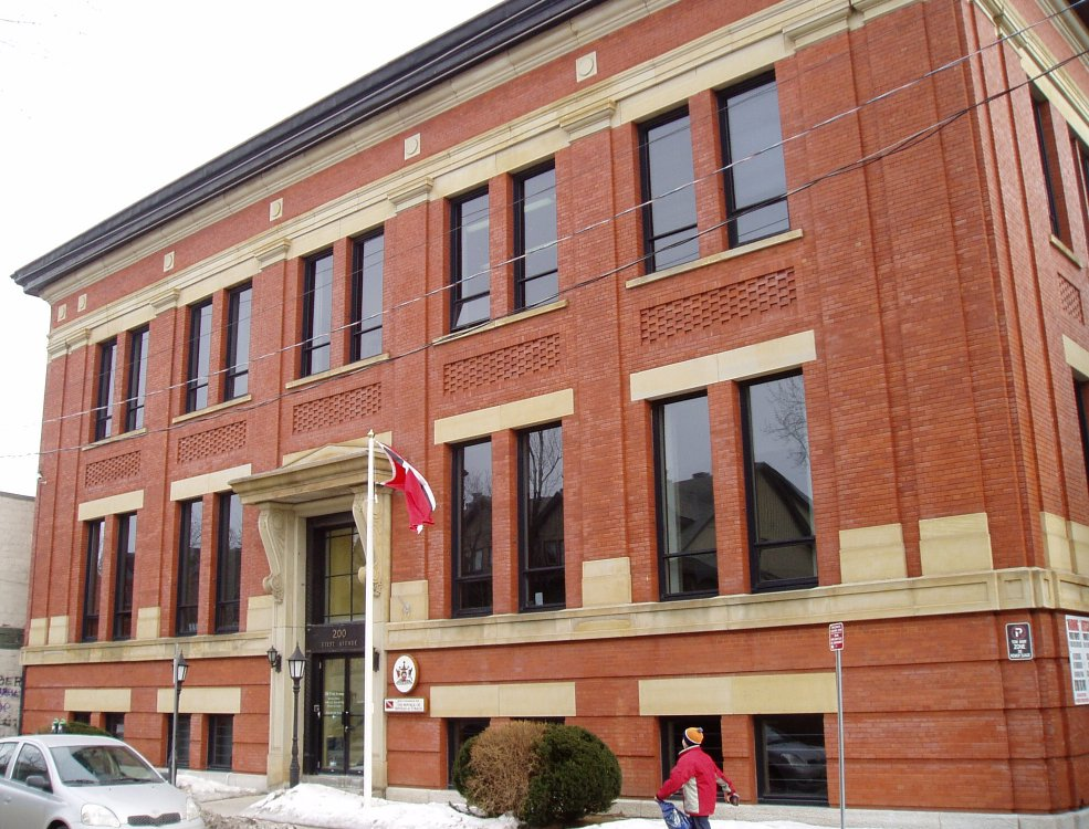 High Commission of Trinidad and Tobago in Ottawa. Taken by SimonP in March 2005